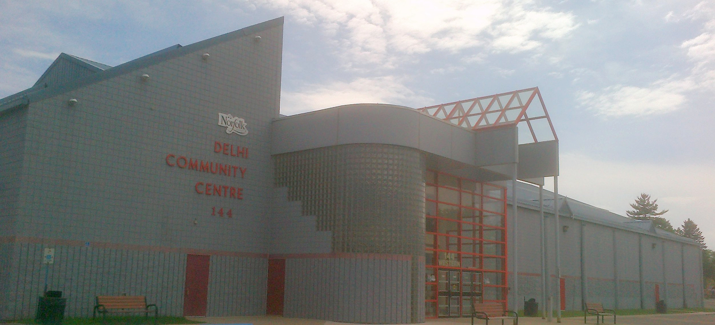 Delhi Community Centre. Delhi, Ontario, Canada